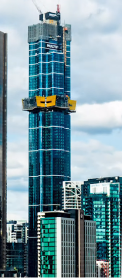 Melbourne's tallest building, Australia 108, topped-out in November 2019. Image has been slightly rotated.